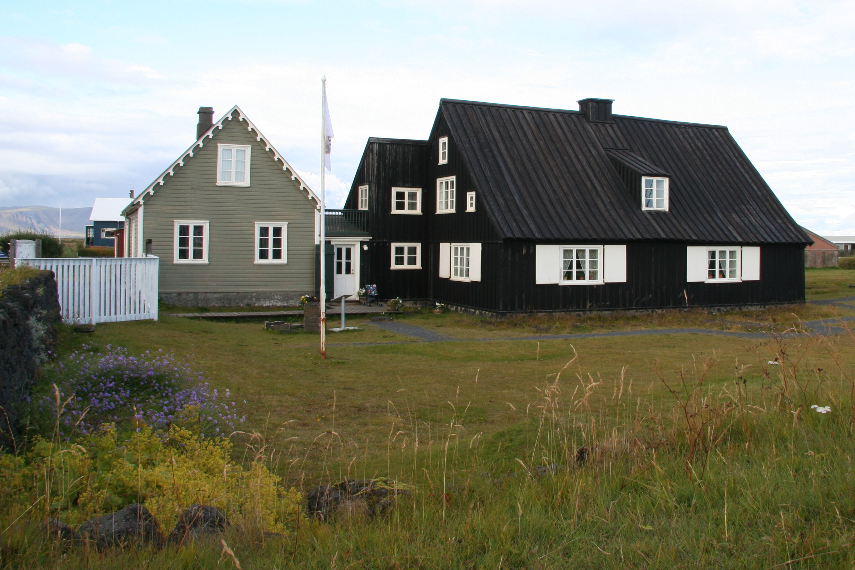 "The house" in Eyrarbakki